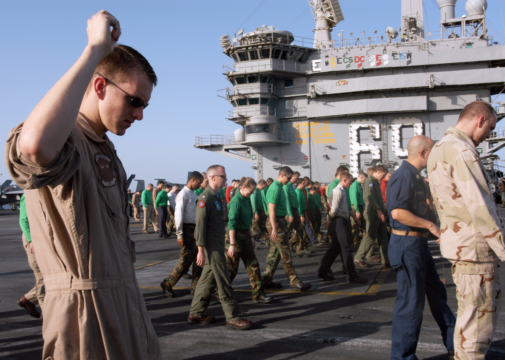 ARABIAN SEA (April 30, 2007) - Sailors conduct a foreign object debris (FOD) walkdown aboard Nimitz-class aircraft carrier USS Dwight D. Eisenhower (CVN 69). Eisenhower and embarked Carrier Air Wing (CVW) 7 are deployed in support of Maritime Security Operations (MSO). U.S. Navy photo by Mass Communication Specialist Seaman Laura Thuman (RELEASED)